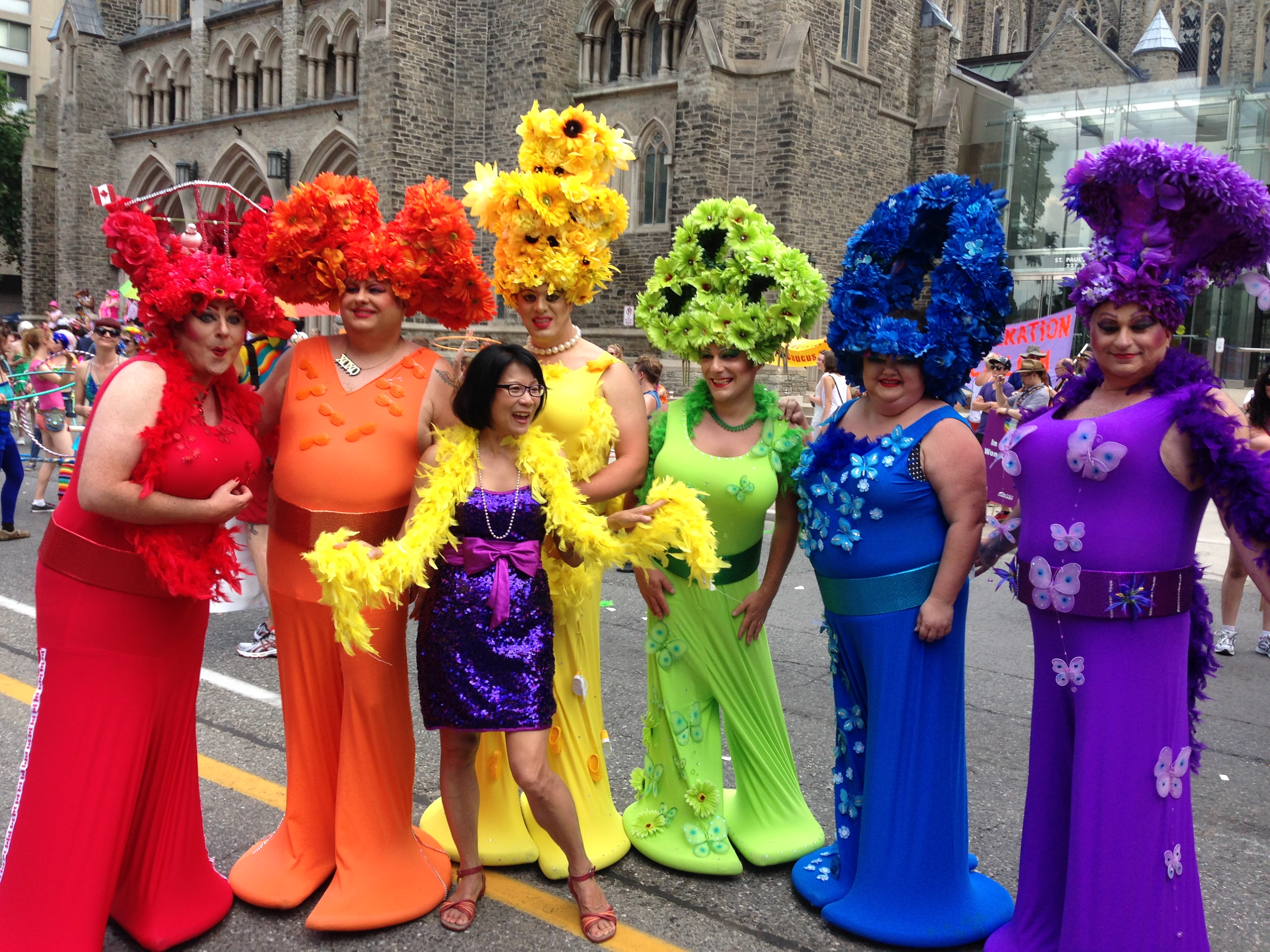 Olivia Chow, Mayoral candidate and former Member of Parliament and City Councillor, during Toronto Pride. In 2014, Toronto welcomed visitors from across the globe for World Pride.